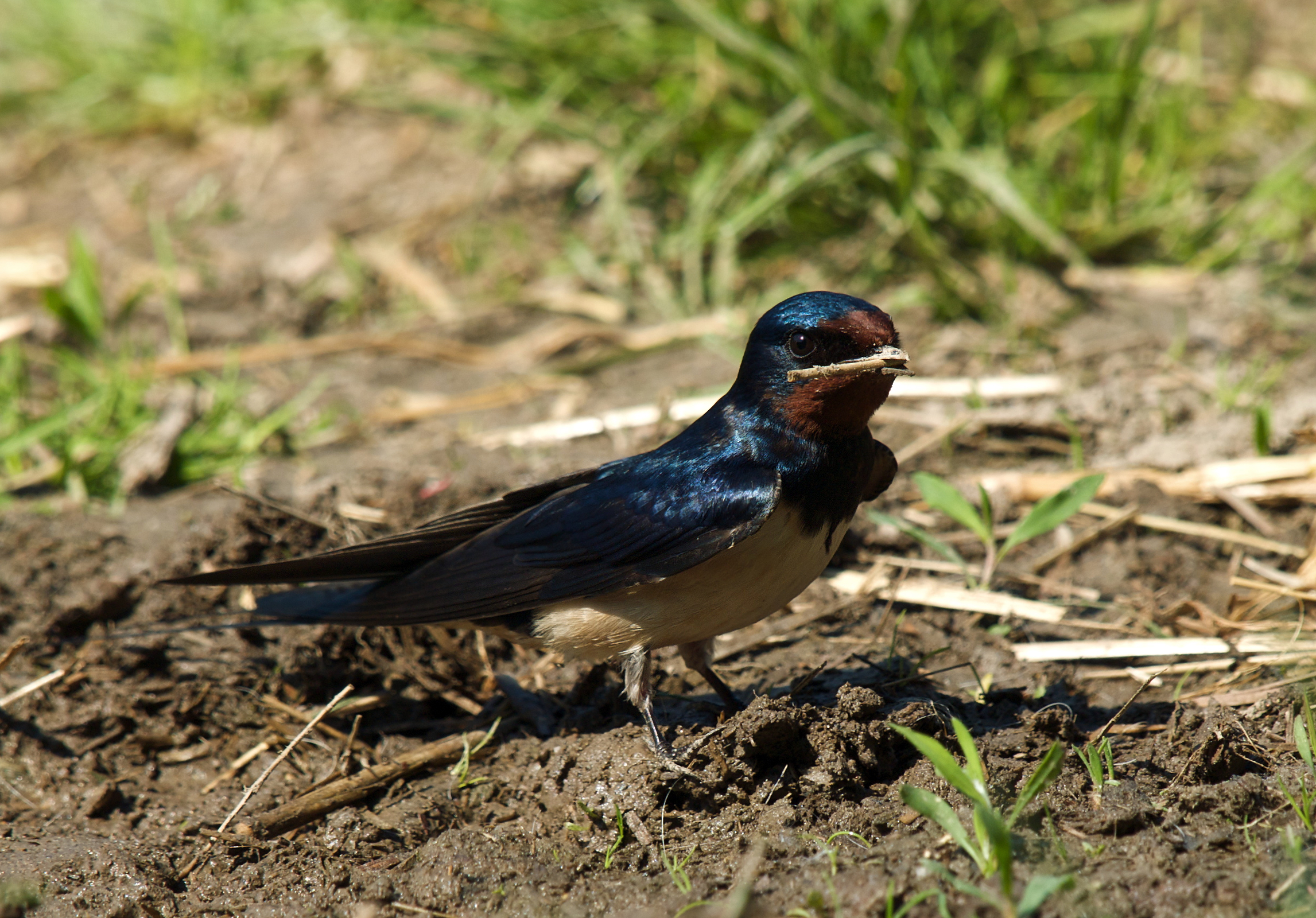 Barn Swallow (Hirundo rustica) searching for material for nest-building, Chemnitz, Germany